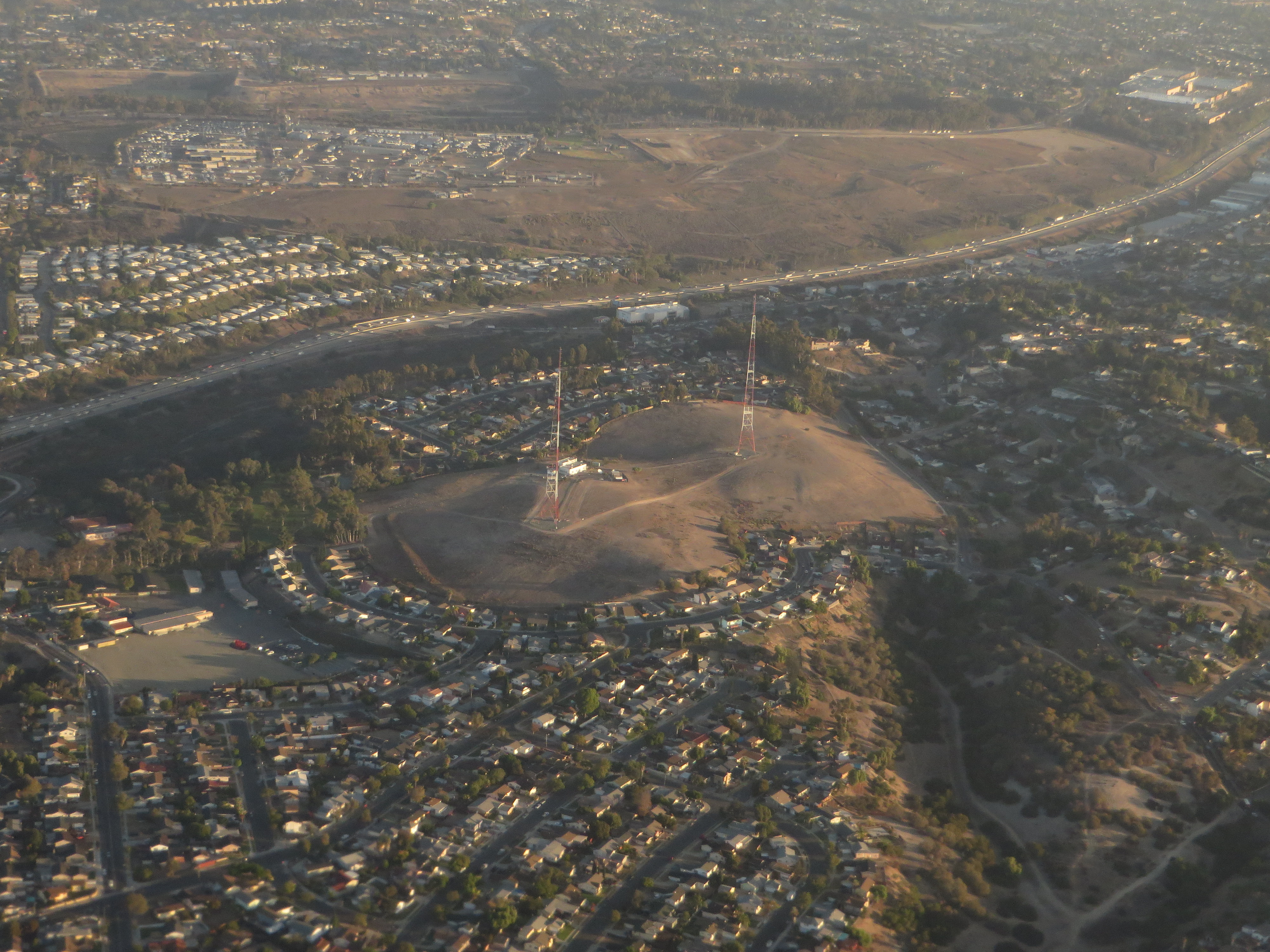 Emerald Hills is a community in the southeastern section of the city of San Diego. It is bordered by Oak Park and California State Route 94 on the north, Chollas View and Euclid Avenue on the west, Encanto on the east, and Valencia Park and Market Street on the south. Major thoroughfares include Kelton Road and Roswell Street. The area which constitutes Emerald Hills was once a burial site for the local Kumeyaay Indian tribe. The modern neighborhood is named for the Emerald Hills Country Club and Golf Course, established in the area in 1929. The Country Club was sold in 1939 to Thomas Sharp (of Sharp Health Care) to build a transmitter site for his radio stations KFSD-AM/FM. Due to the proximity to the Chollas Naval Towers, the KFSD towers were not built until 1948. During the war Sharp continued to operate the golf course, and after the radio transmitter facility was built, Emerald Hills was lowered from an 18 hole course to a 9 hole. Sharp sold the remaining golf course to developers to be used for homes in 1958. The highest point in Emerald Hills holds a radio transmitter for AM 600 KOGO.